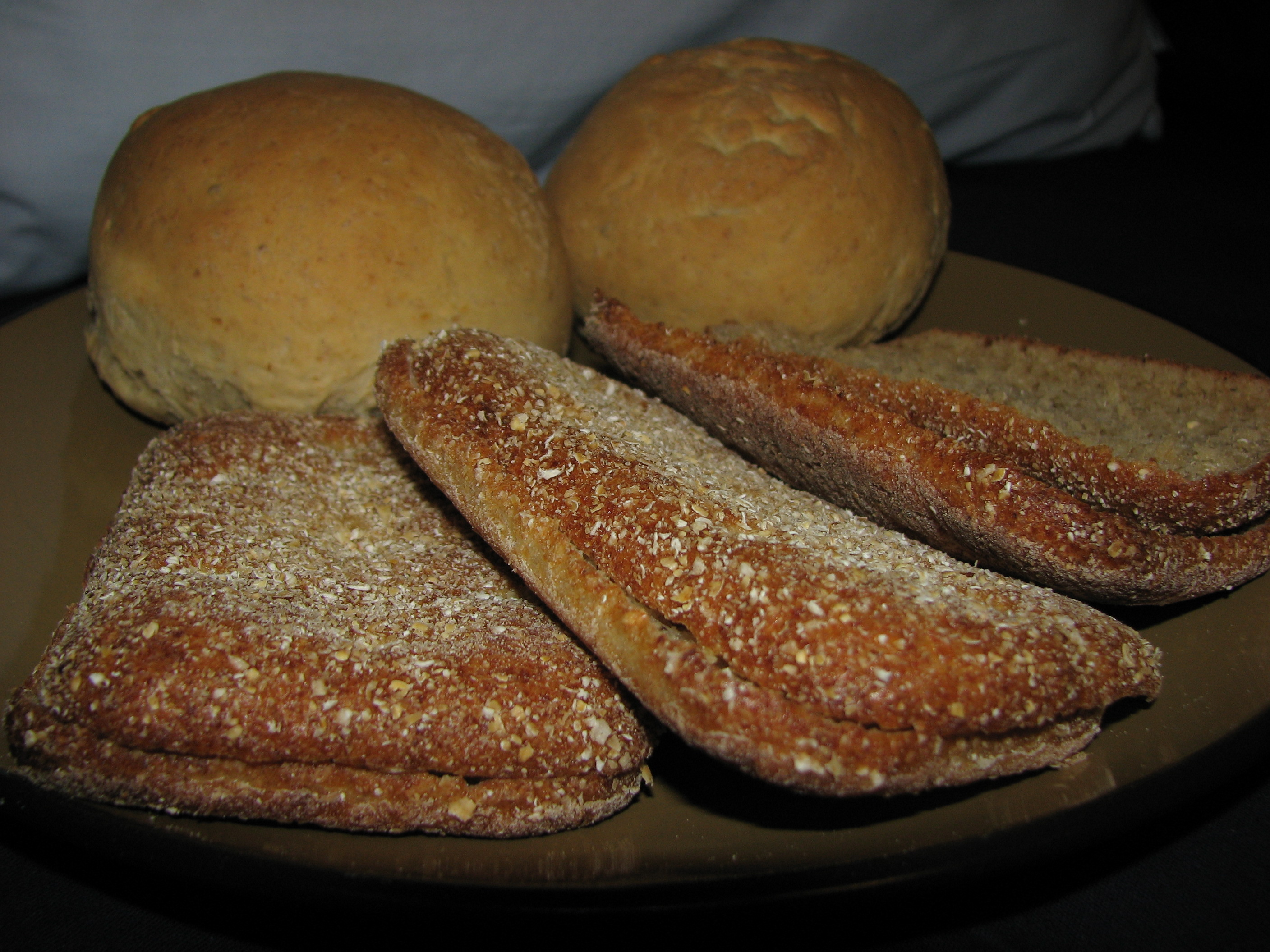 A couple of oat rolls and 3 kaurapala, 1 split. Finnish oat breads.